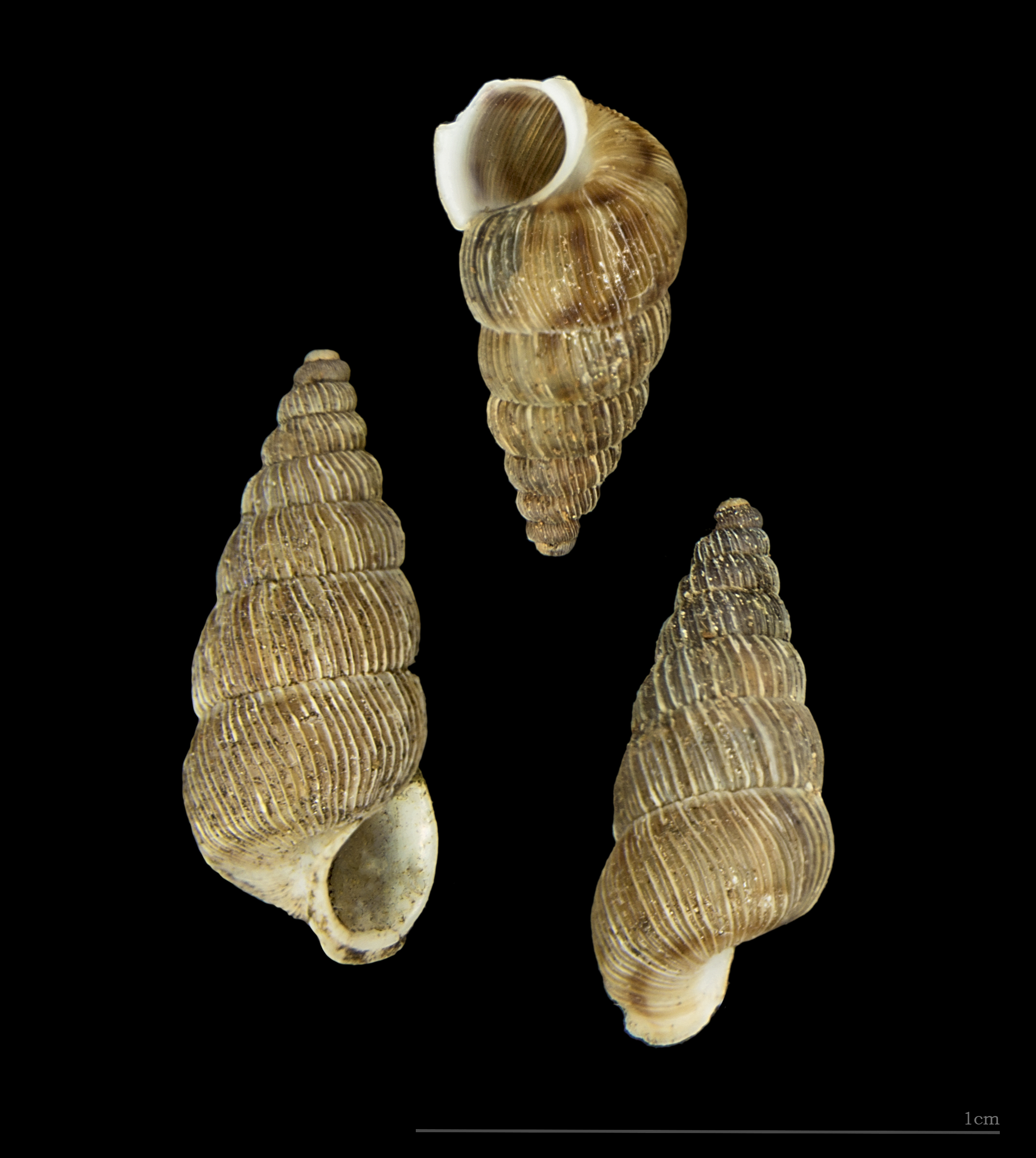 Shells of Cochlostoma nouleti.Dedicated to Jean-Baptiste Noulet.